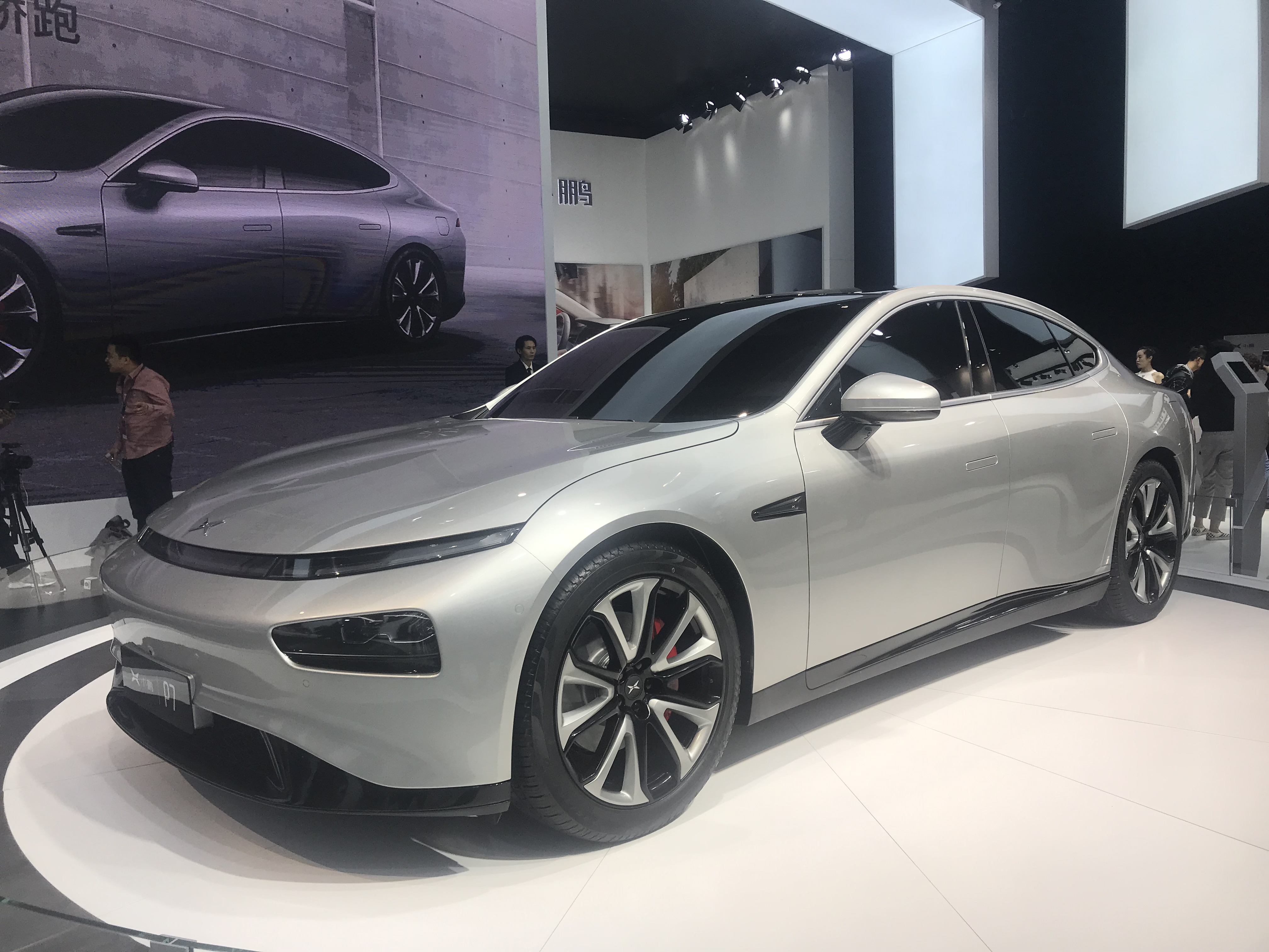 Xpeng (Xiaopeng) P7 front